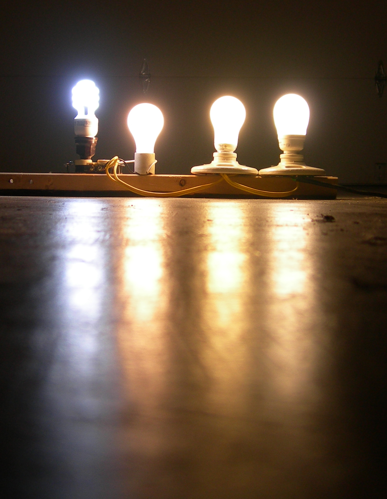 A photograph of various lamps illustrates the effect of color temperature differences (left to right): (1) Compact Fluorescent: General Electric, 13 watt, 6500 K (2) Incandescent: Sylvania 60-Watt Extra Soft White (3) Compact Fluorescent: Bright Effects, 15 watts, 2644 K (4) Compact Fluorescent: Sylvania, 14 watts, 3000 K